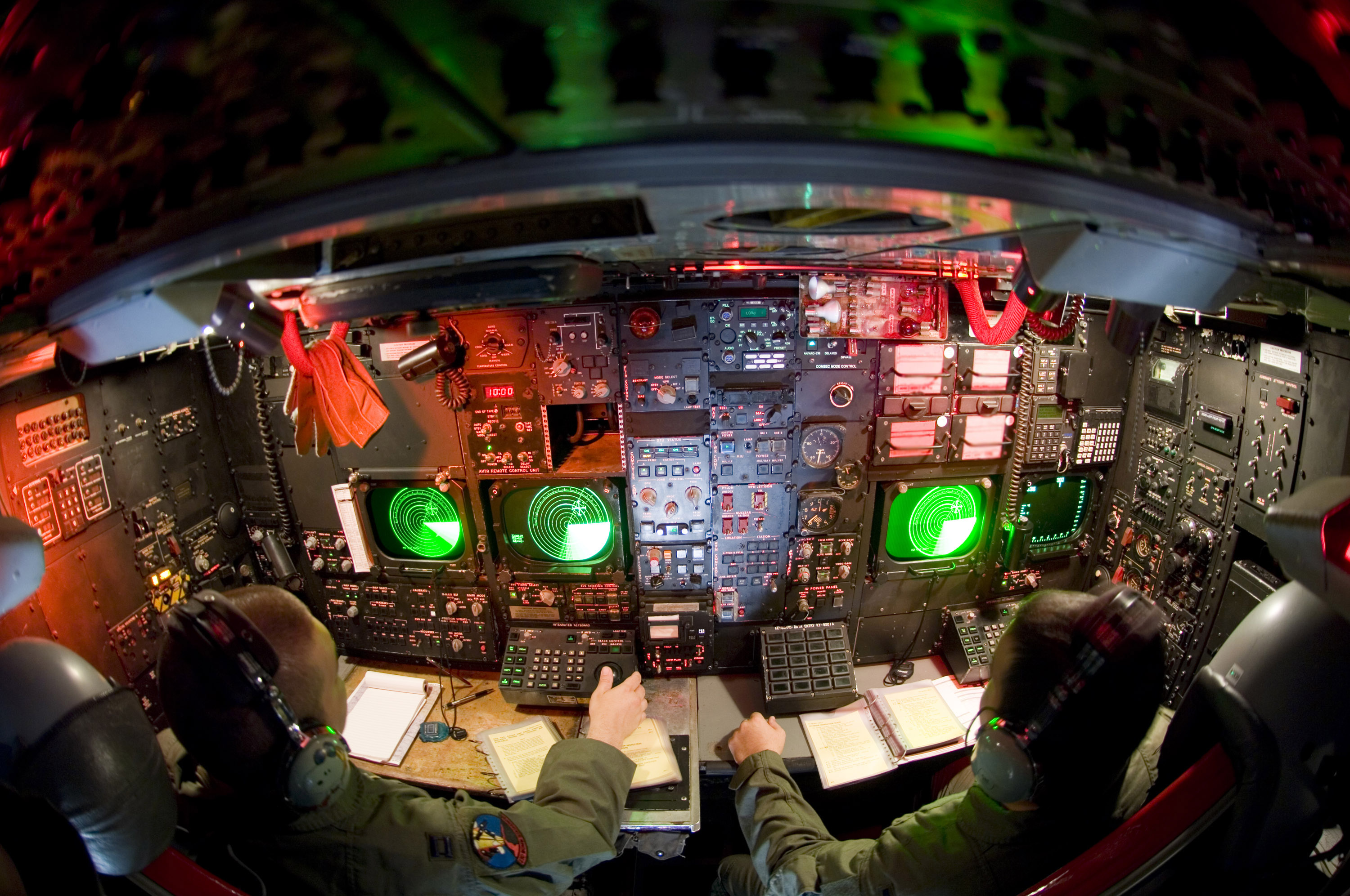 Capt. Jeff Rogers (left) and 1st Lt. Patrick Applegate are ready in the lower deck of a B-52 Stratofortress at Minot Air Force Base, N.D., on Aug. 21 [2006?]. The officers are with the 5th Bomb Wing at Minot AFB. (U.S. Air Force photo illustration/Master Sgt. Lance Cheung)